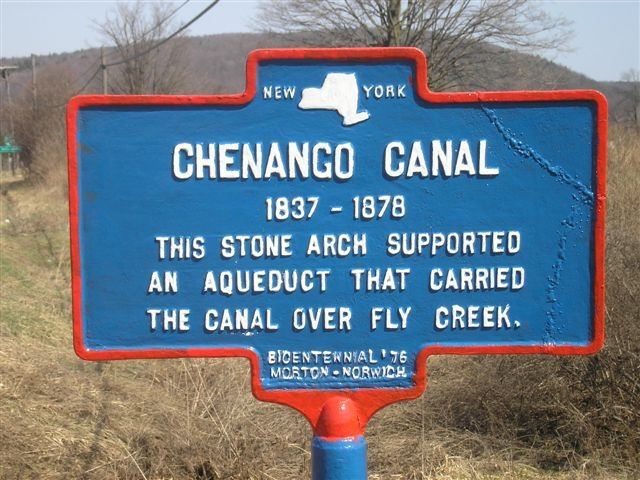 Historic marker of Chenango Canal aqueduct at North Norwich, NY